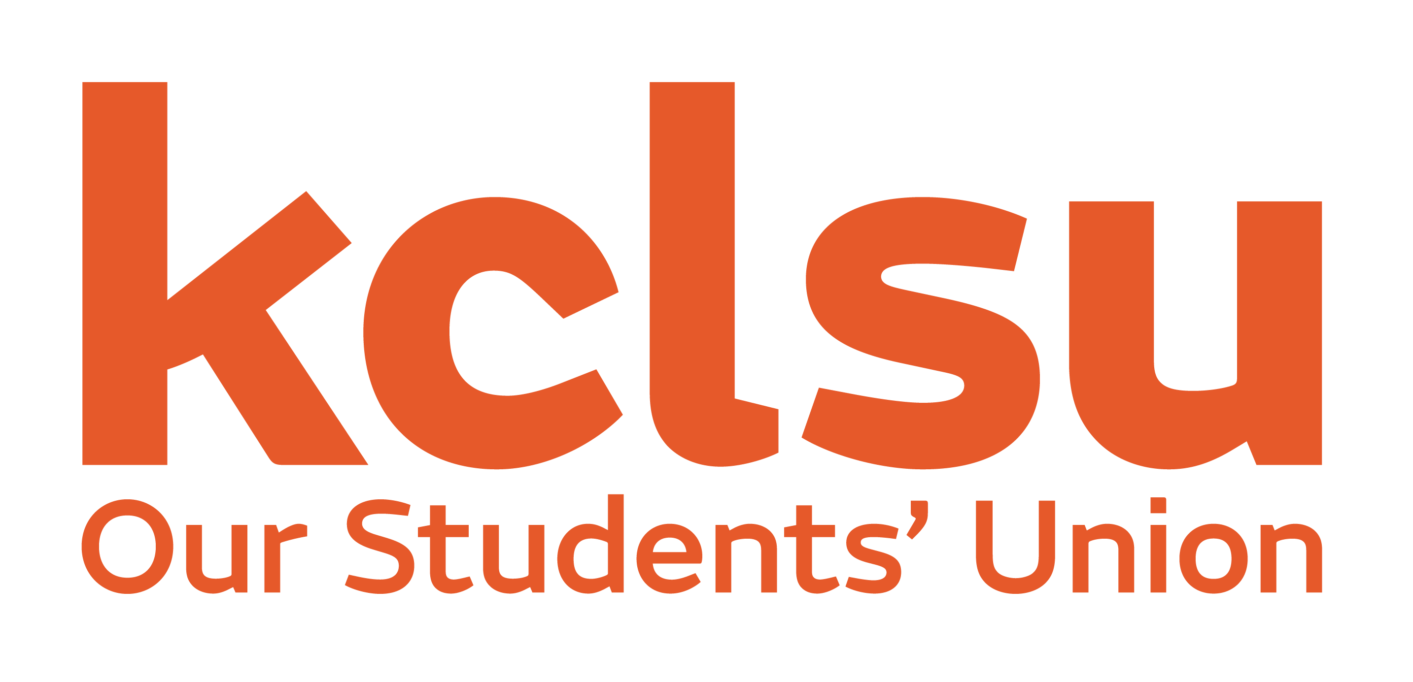 The logo of the King's College London Students' Union updated from 2020 onwards